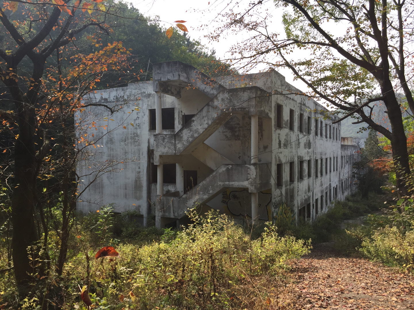 Korean haunted house1